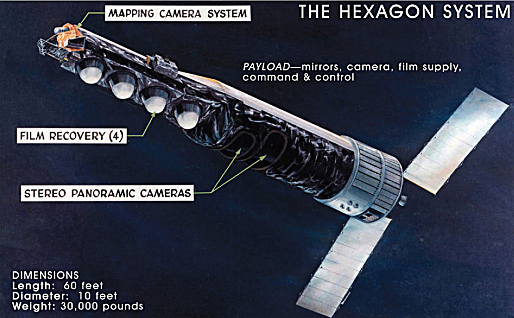 Artist conception of KH-9 HEXAGON satellite, declassified and released by NRO on 17 Sep 2011